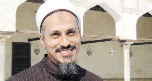 SheikEmad'sPhoto